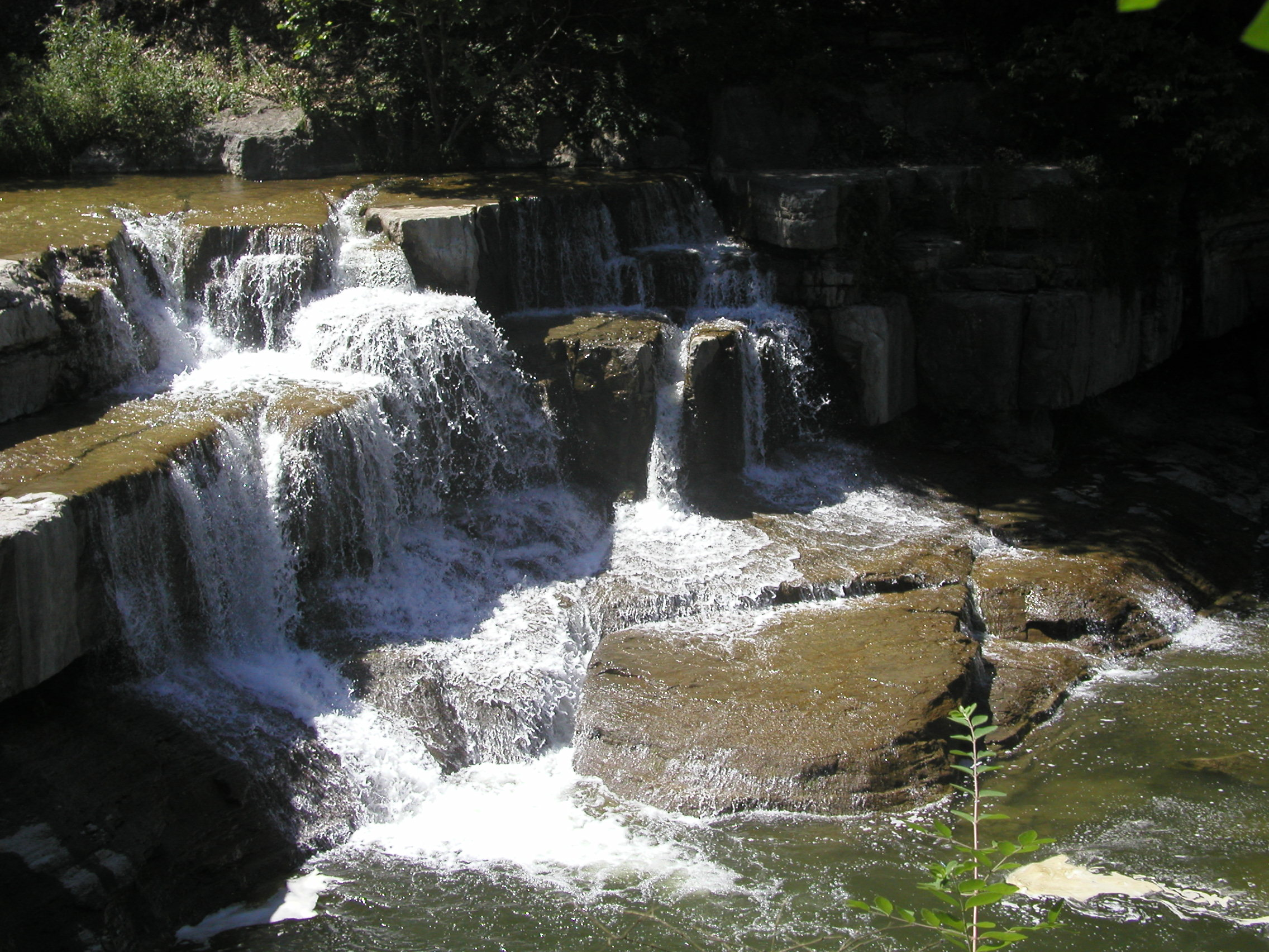 Ithaca Falls in Syracuse